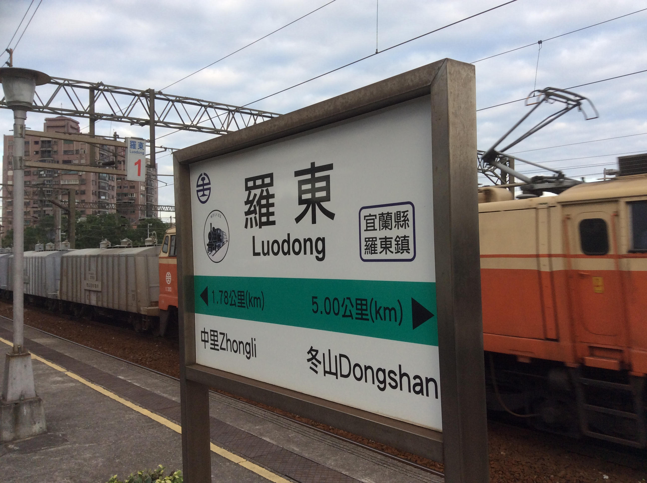 Luodong Station with TRA E303 Electric Locomotive passing through.